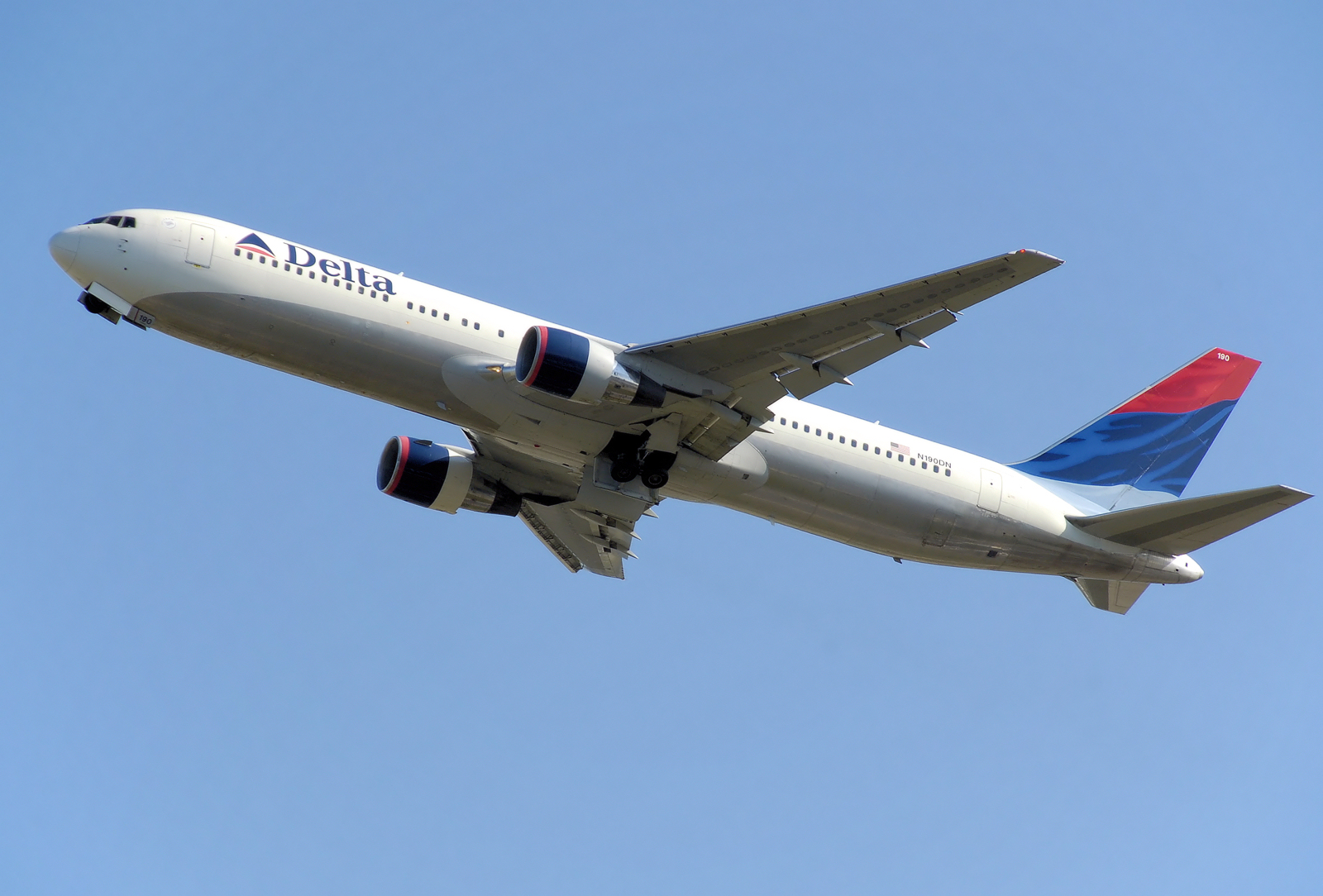 Delta Air Lines Boeing 767-300 (N190DN) takes off from London Heathrow Airport, England.